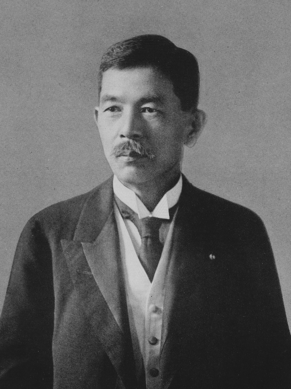 Portrait of Ichiki Kitokuro (一木喜徳郎, 1867 – 1944)